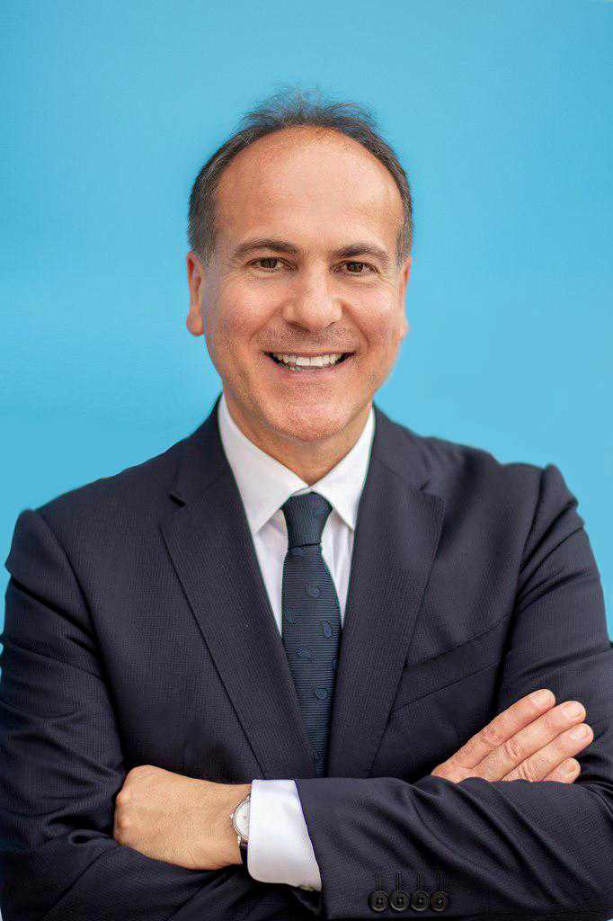 Gianfranco Battisti CEO FS Italiane Group